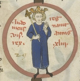 Louis VII of France